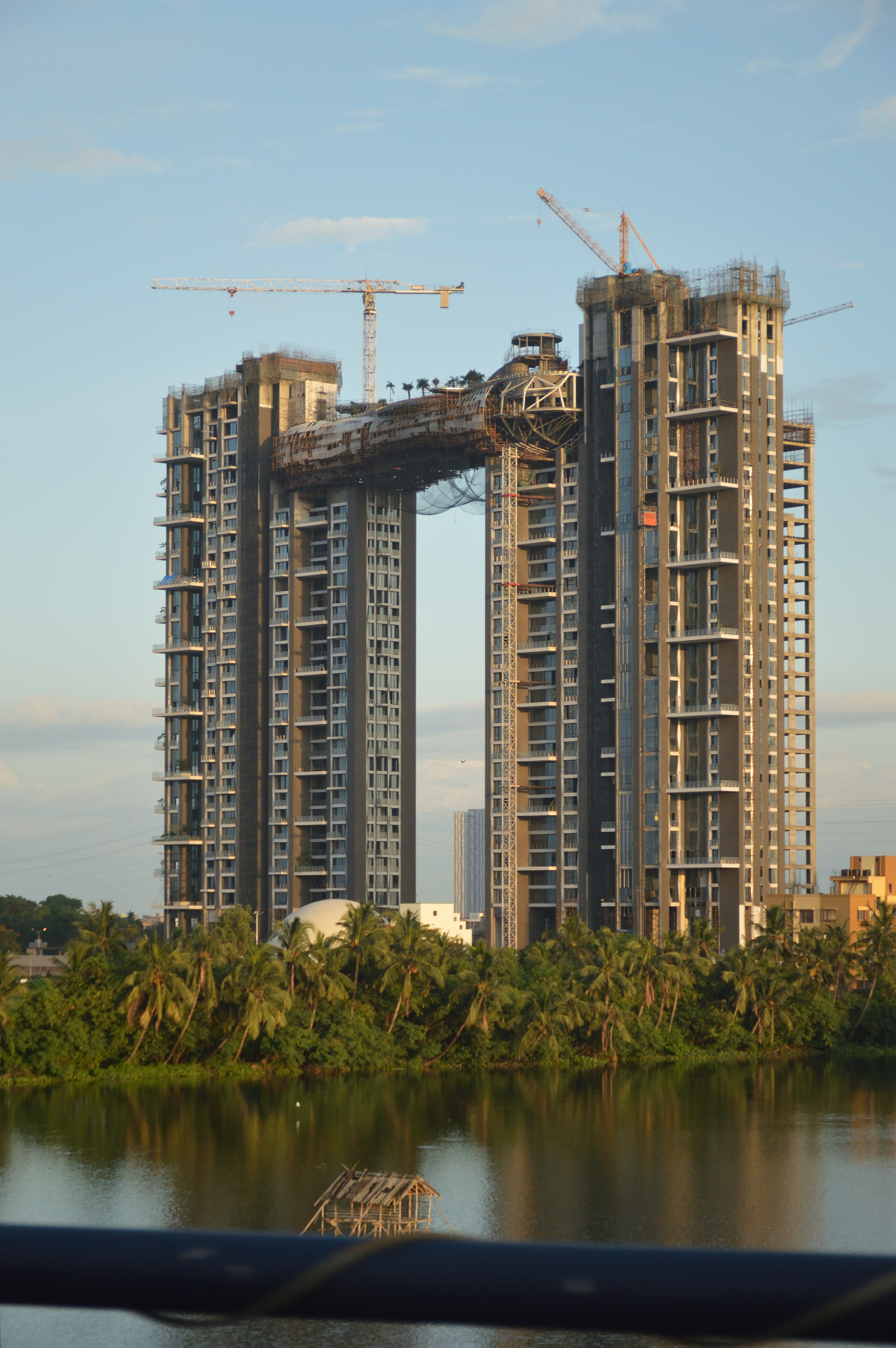 This photograph was taken in Kolkata.